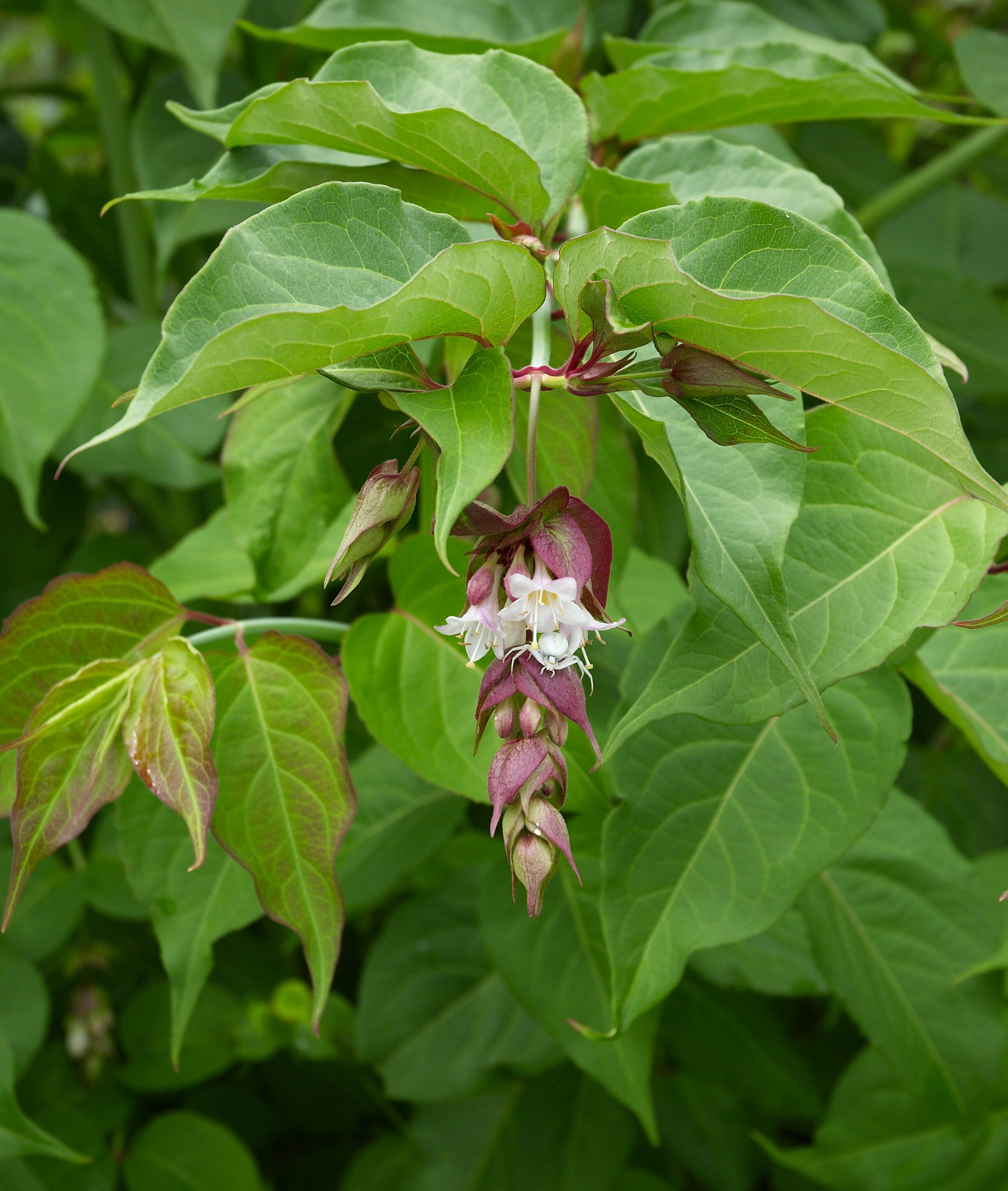 Crab spider in flower of Leycesteria formosa. This photo has been taken in Belgium.